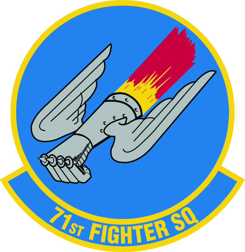 Emblem of the 71st Fighter Squadron of the United States Air Force